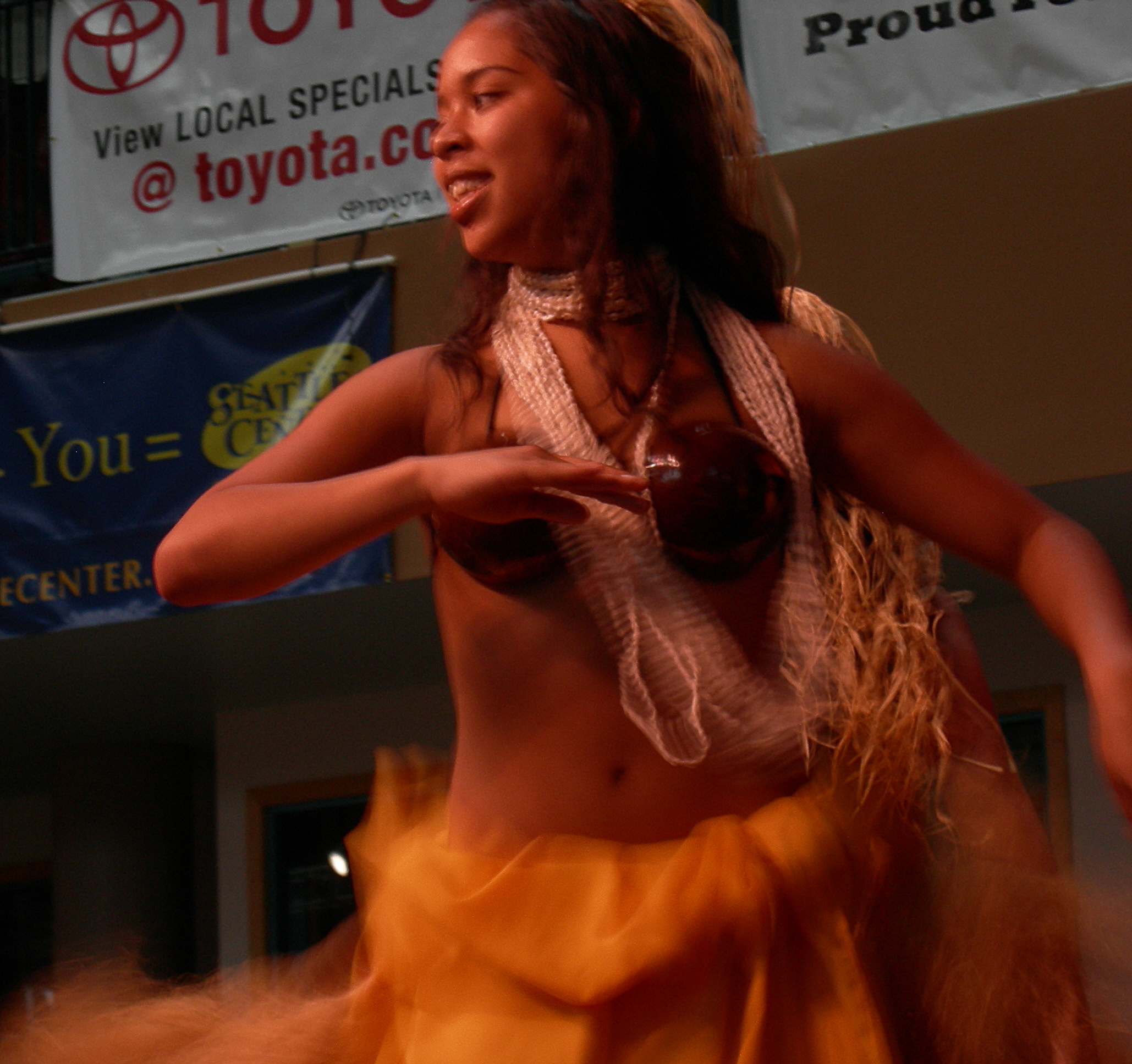 Dancer from hula hālau Ke Liko A`e O Lei Lehua performs at Center House, Seattle Center, as part of Festál's API (Asian Pacific Islander) Heritage Month Festival. The pictures of this event have generally undergone slight enhancement (sharpening, color adjustments) with Picture Publisher.